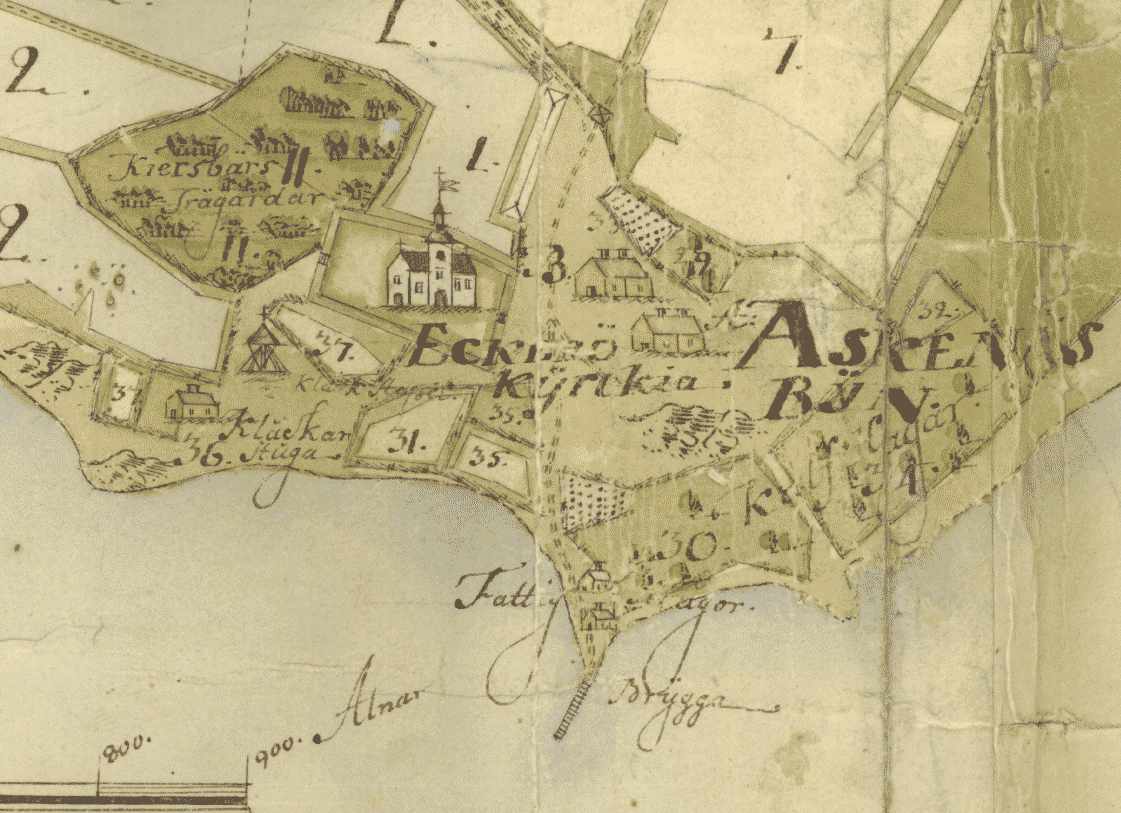 Asknäs by map